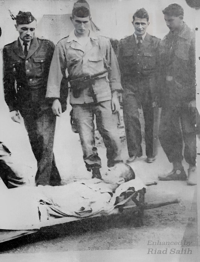 Abderahman mira corpse exposed by the french army. Abderahman Mira was called by the french "the Lion of Djurdjura"